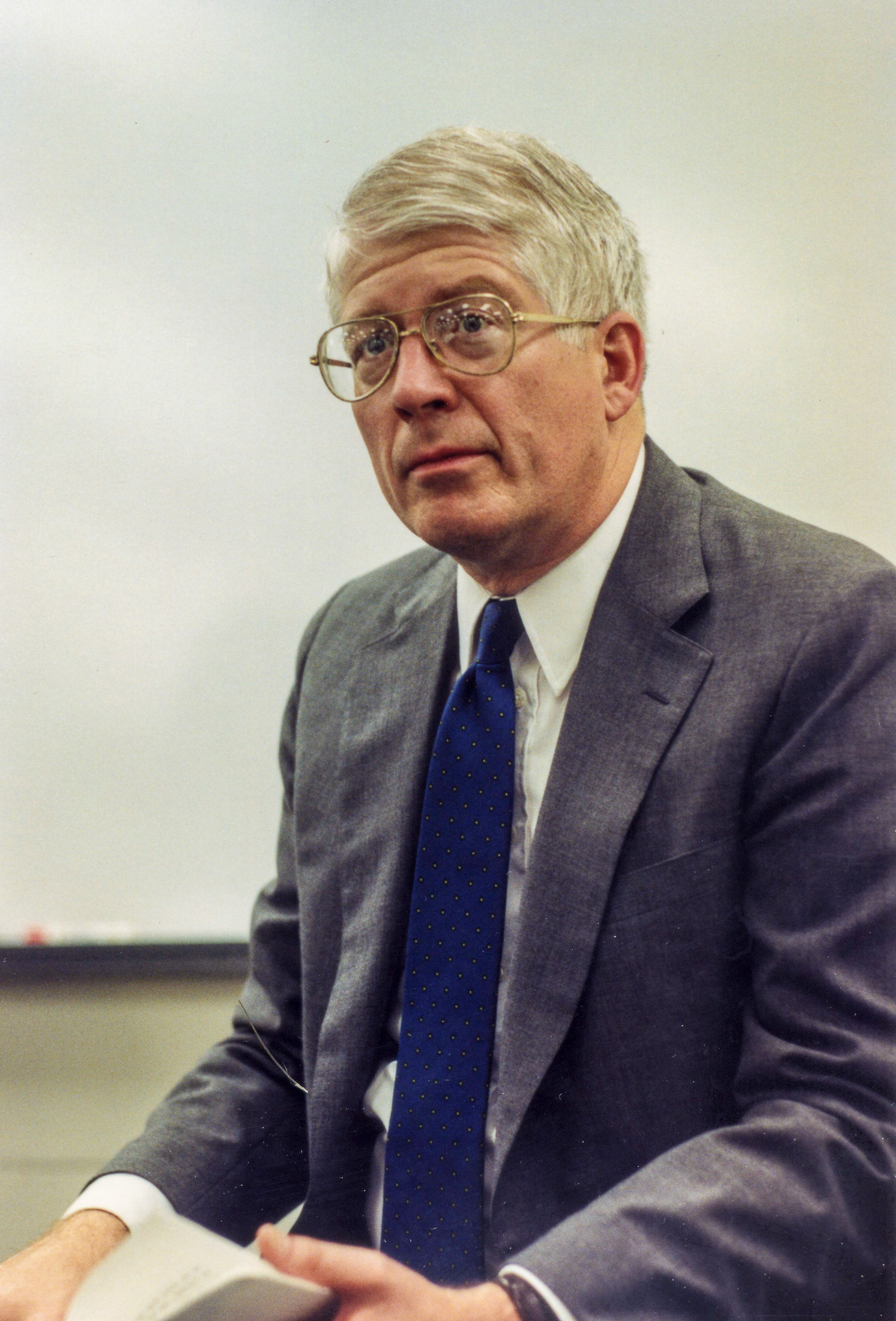 David Price NC Congressman 1992